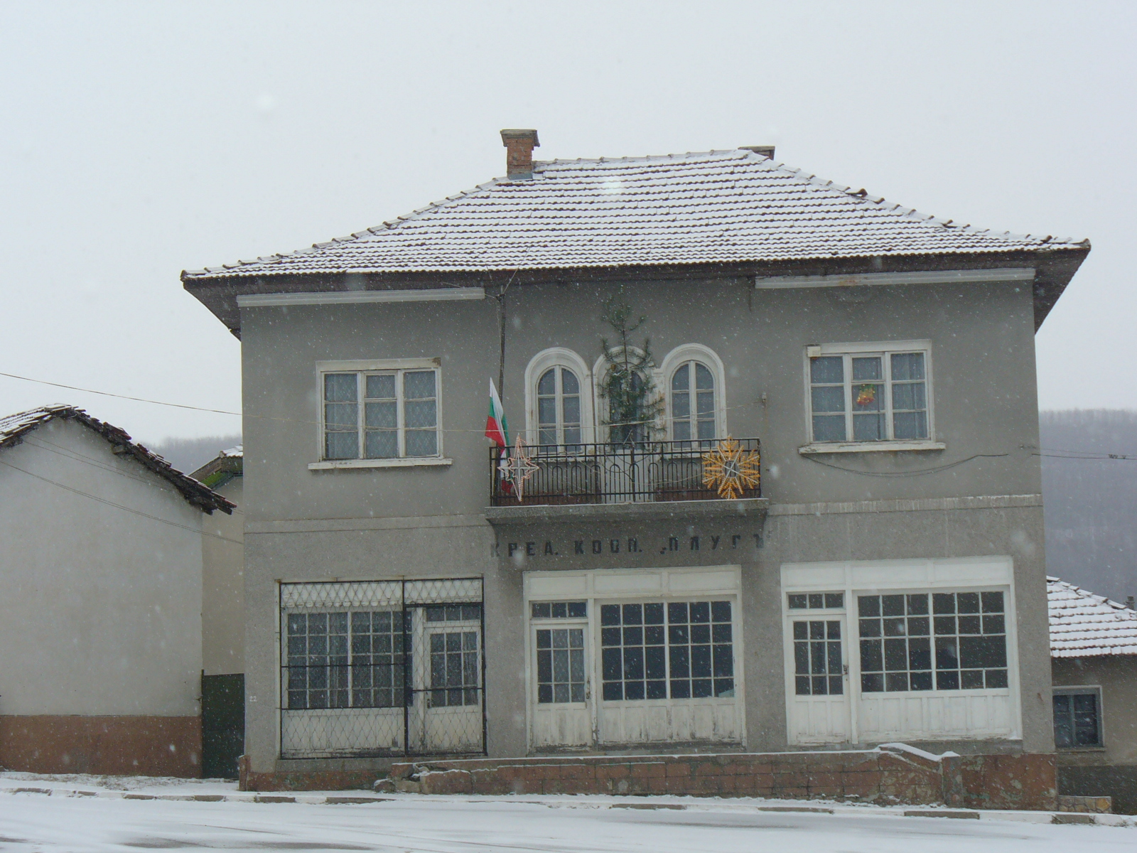 Minicipality of Benkovo village